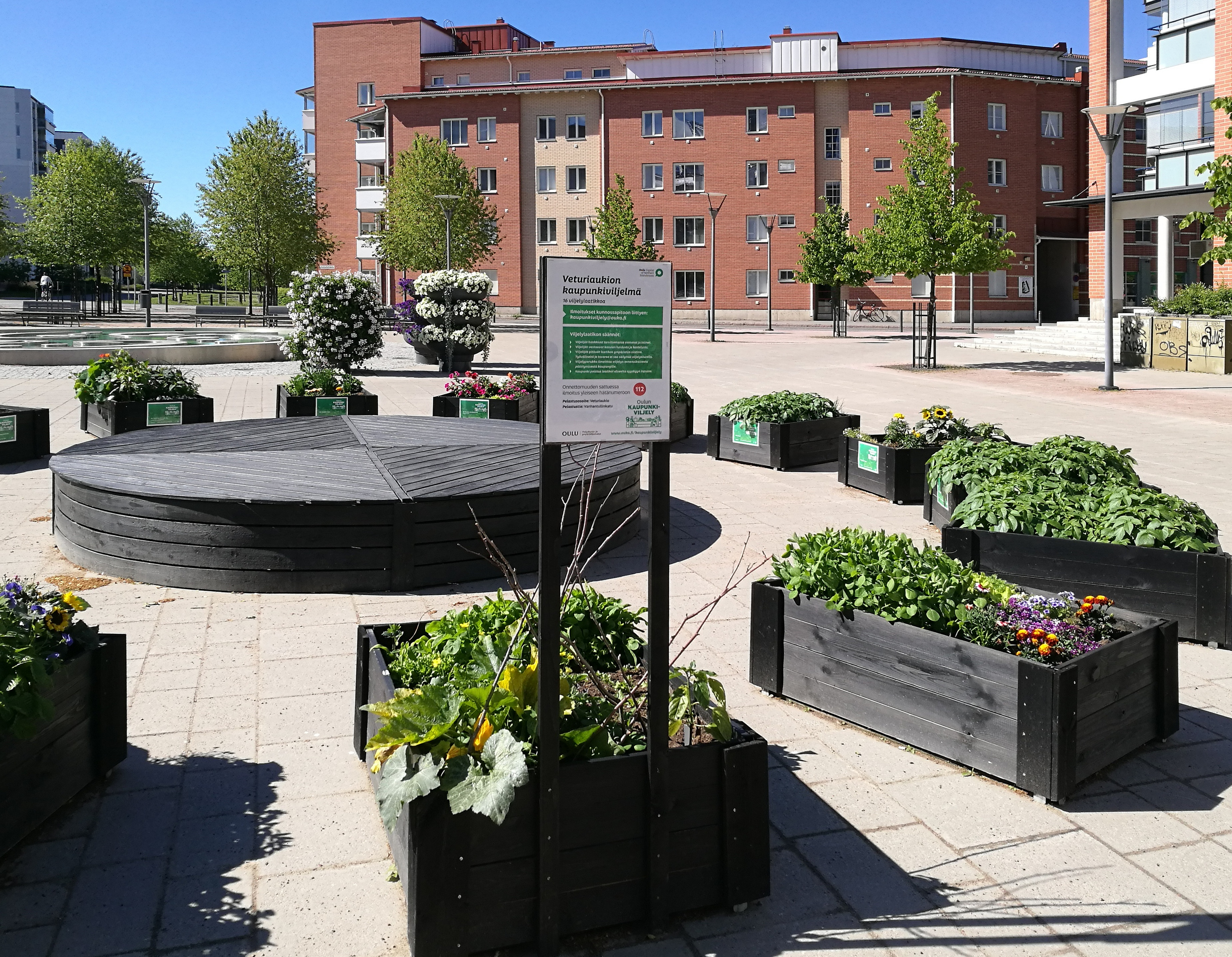 Small scale urban agriculture at the Veturiaukio square in Oulu.